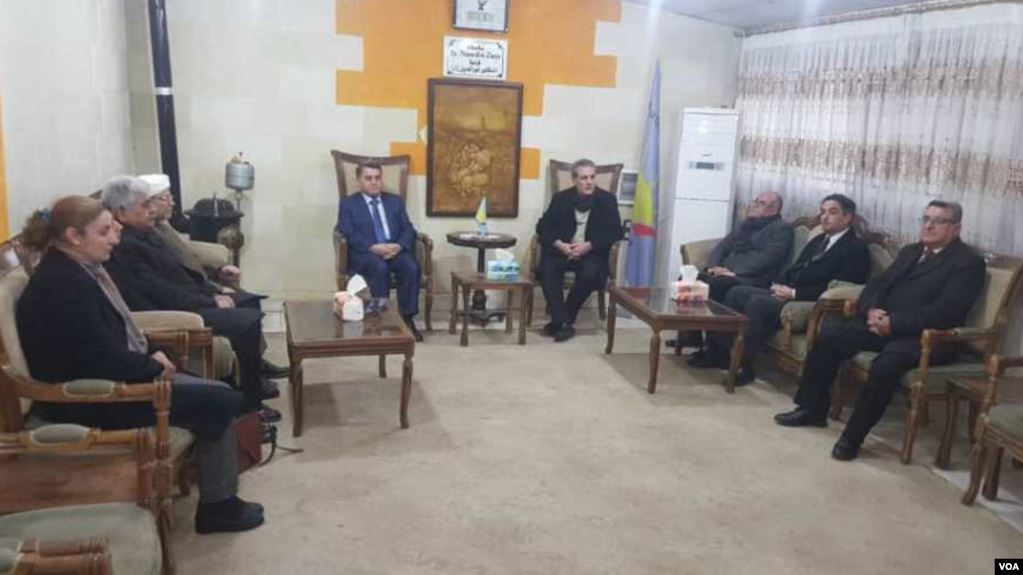 Meeting of Kurdish National Congress and Kurdish Democratic Progressive Party representatives in 2019.